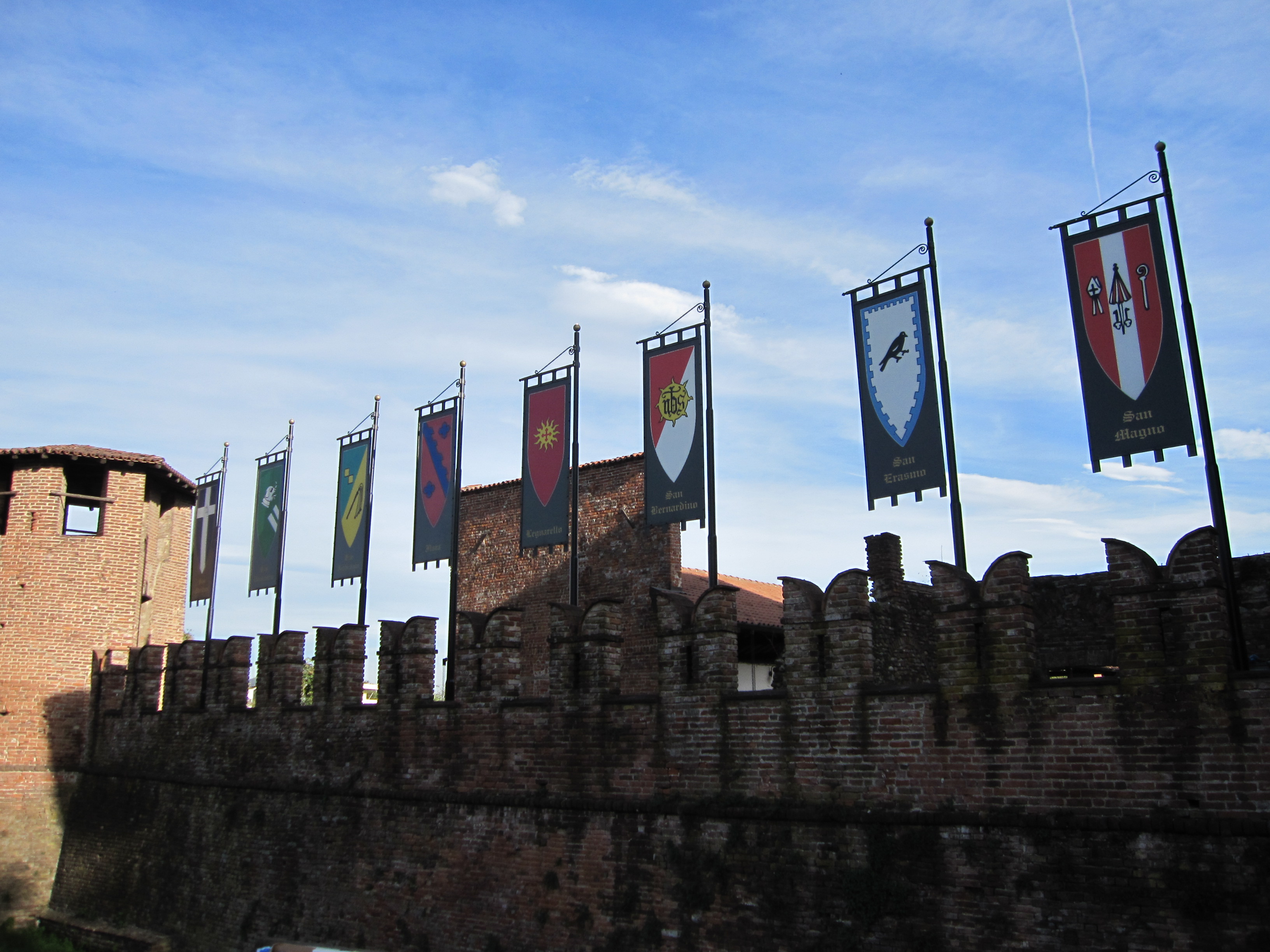 St. George's castle (in Legnano, Italy) - Legnano's eight neighbourhoods flags